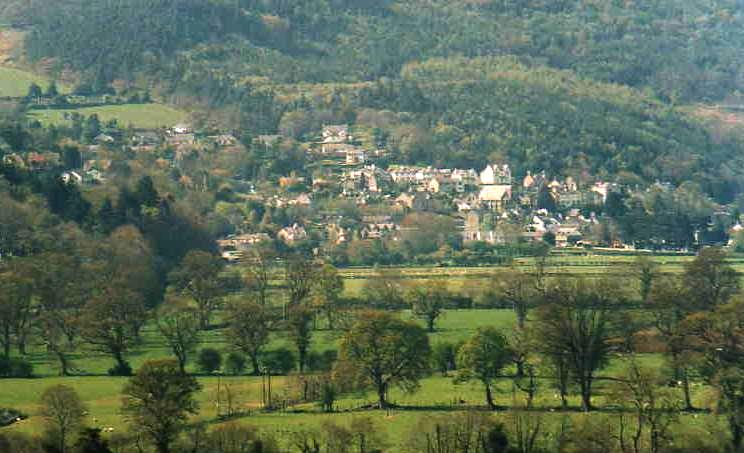 The village of Trefriw, taken from the edge of Gwydir Forest.